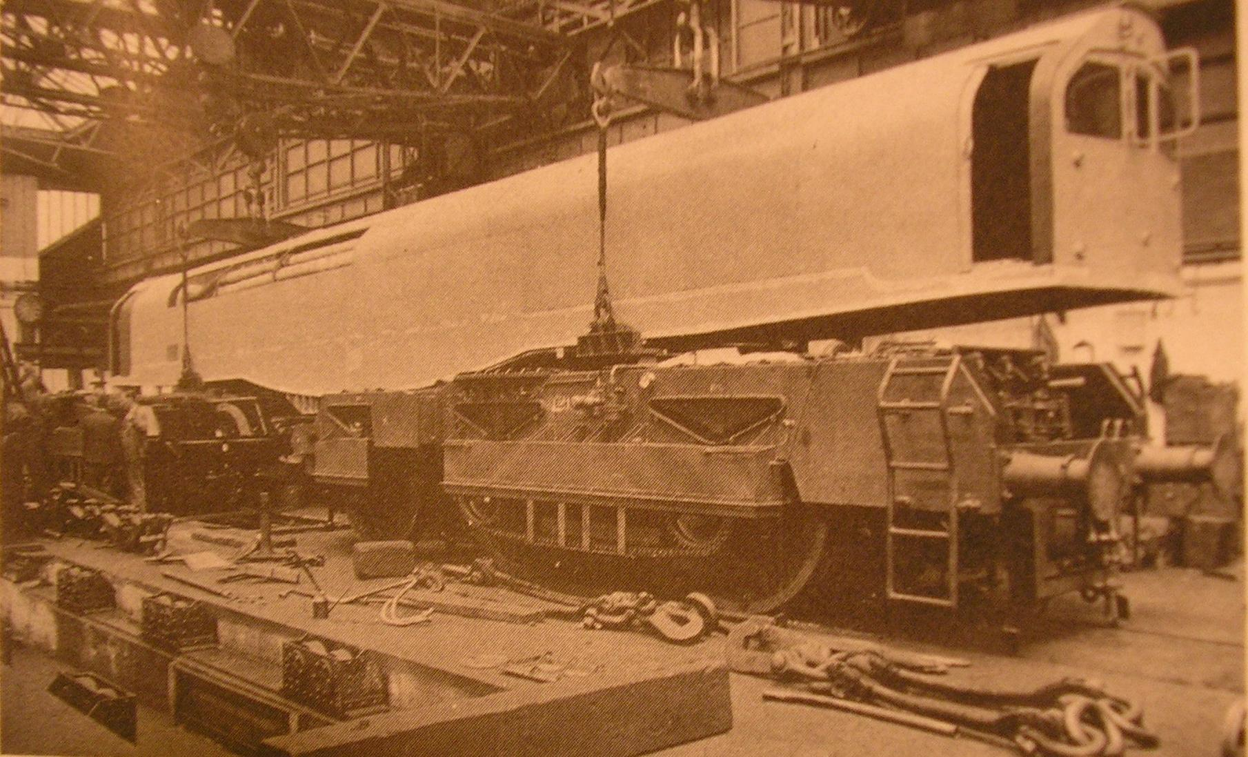 Official photograph of the Leader locomotive taken at Brighton works. Taken in May 1949 by British Railways, a nationalised (UK government) concern. Source: Bulleid, H. A. V.: Bulleid of the Southern (Hinckley: Ian Allan Publishing, 1977) ISBN 071100689X